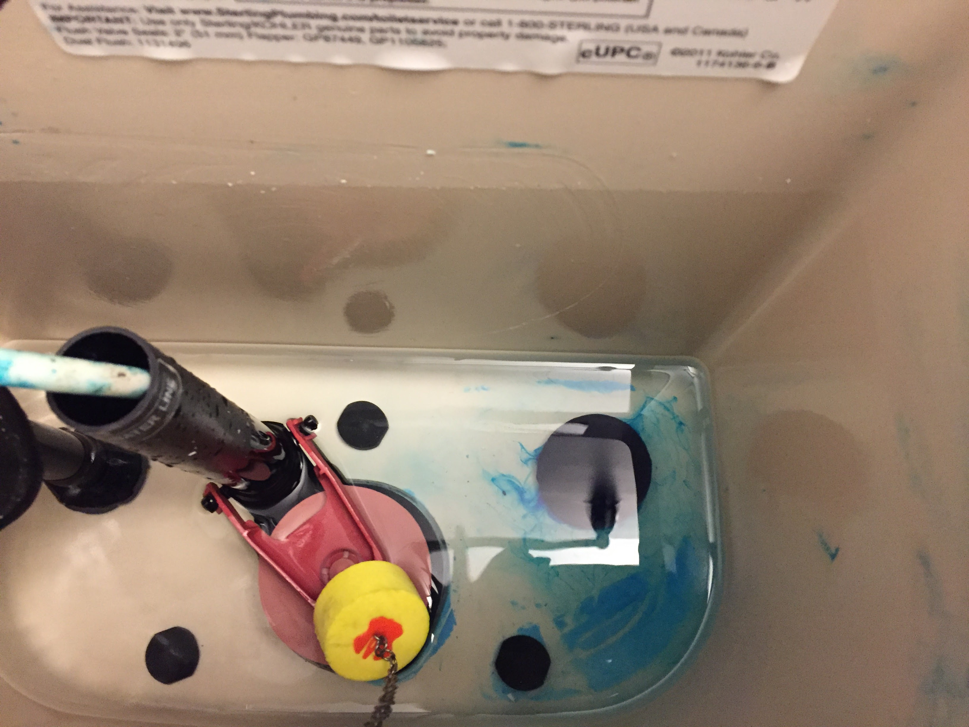 An image of an in tank toilet cleaner tablet placed in a toilet tank